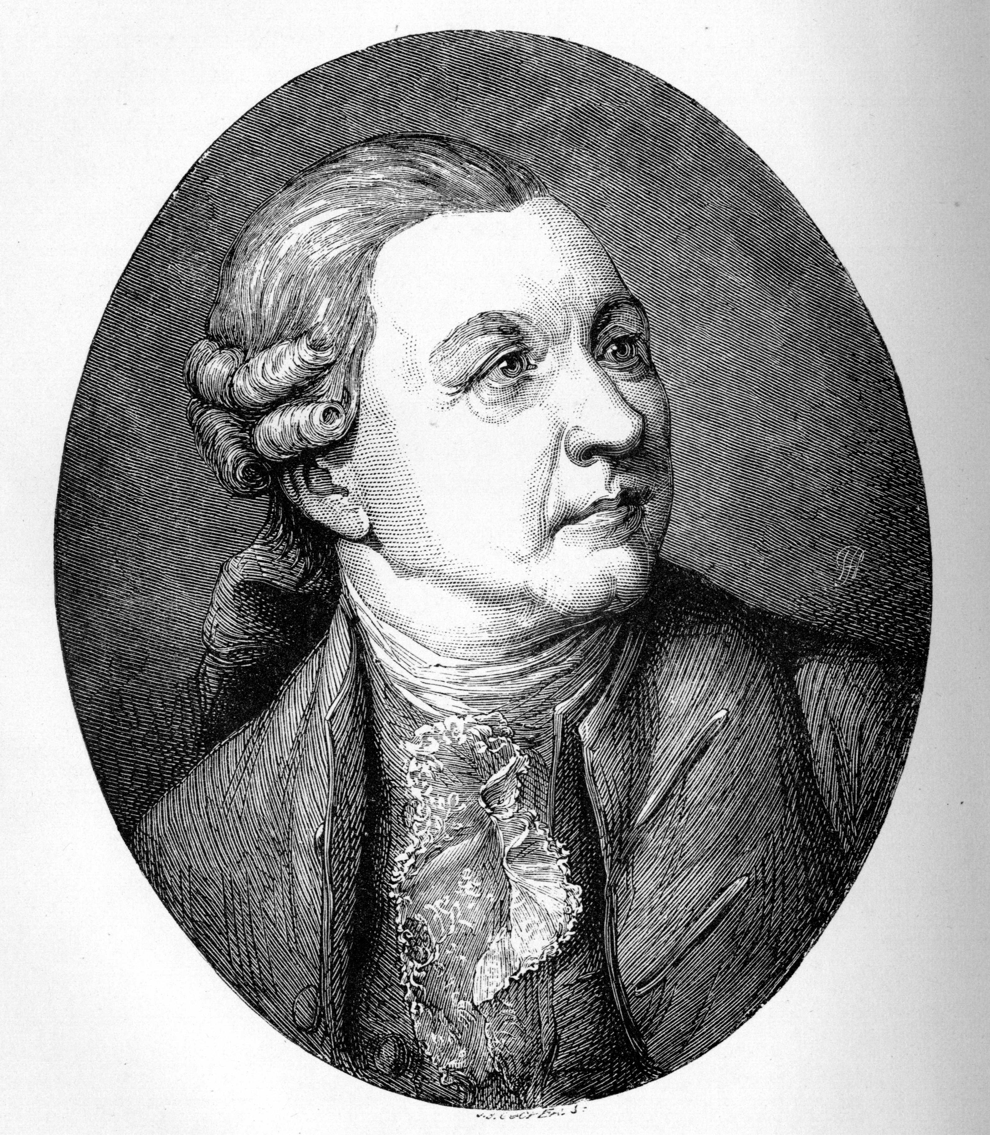 Portrait of Friedrich Gottlieb Klopstock.